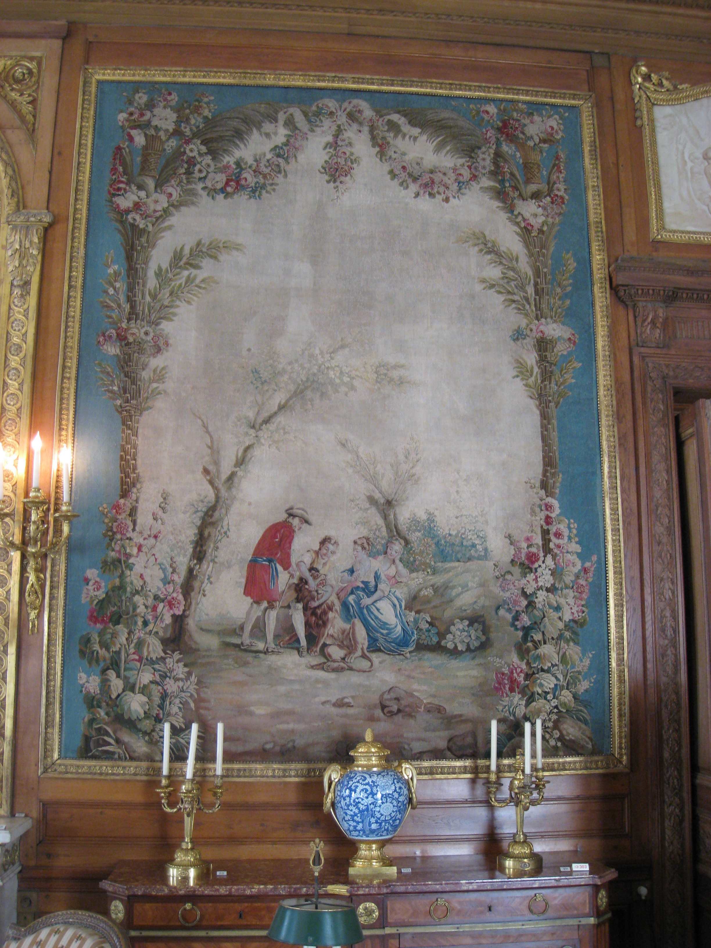 Musée Nissim de Camondo, Paris, France - Aubusson tapestry, after Jean-Baptiste Oudry - Fables de La Fontaine (circa 1775-1780). The original work is old enough so that copyright (if any) has long since expired. The museum imposed no restrictions on photography (except prohibiting flash) in writing and when I explicitly asked; thus the original image appears free of copyright restrictions.